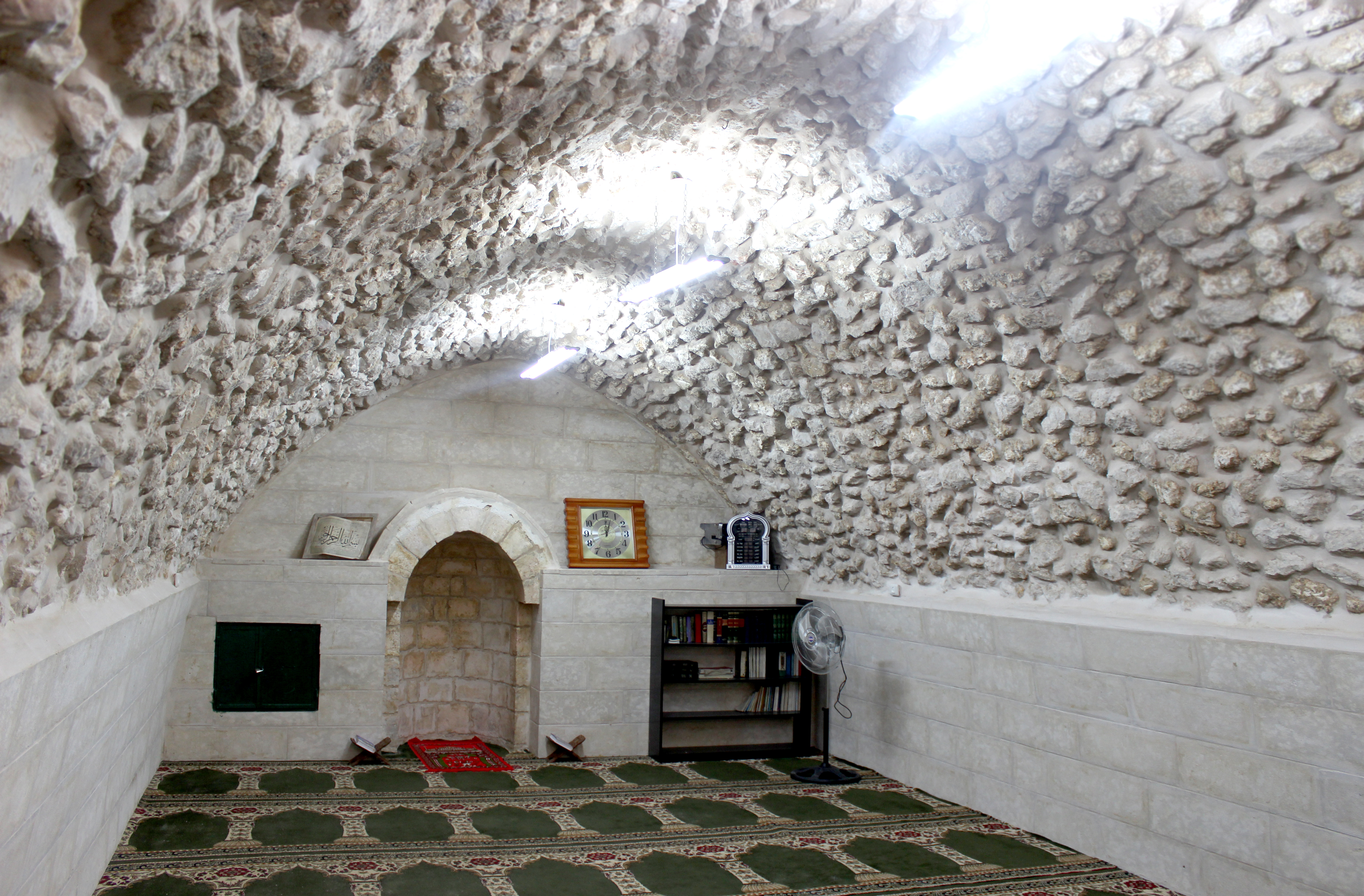 Qalawun Mosque in Old Jerusalem, St Francis street